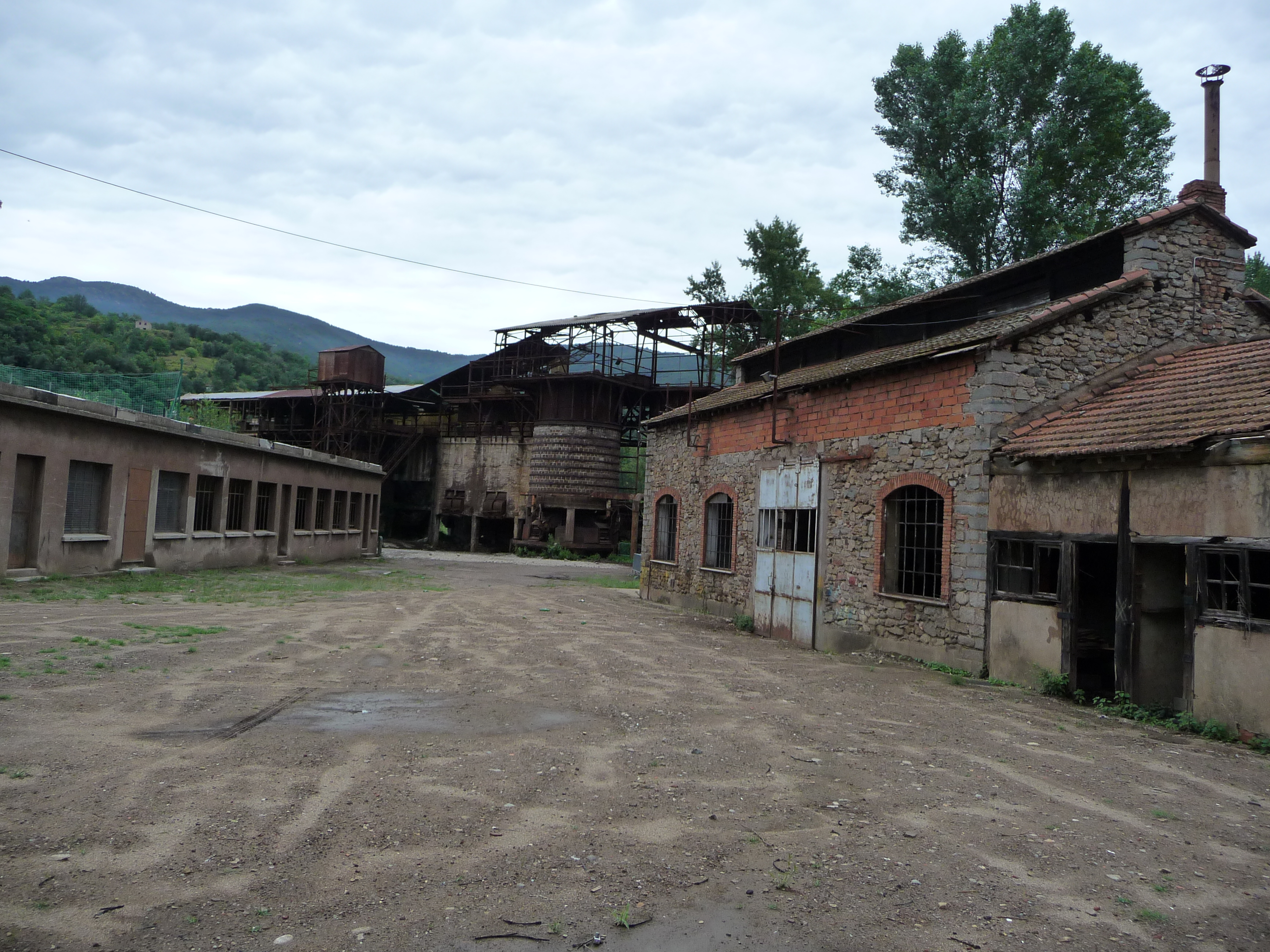 Old mine workings in Arles sur Tech (les Forges Catalanes?)